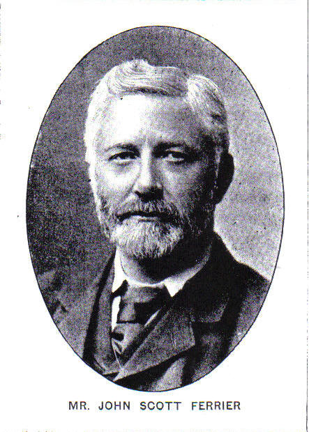 This is a photocopy from a 1891 publication called 'Publishers' Circular'. It is out of copyright and is reproduced by kind permission of the staff of the Edinburgh Room at Edinburgh Central Library.